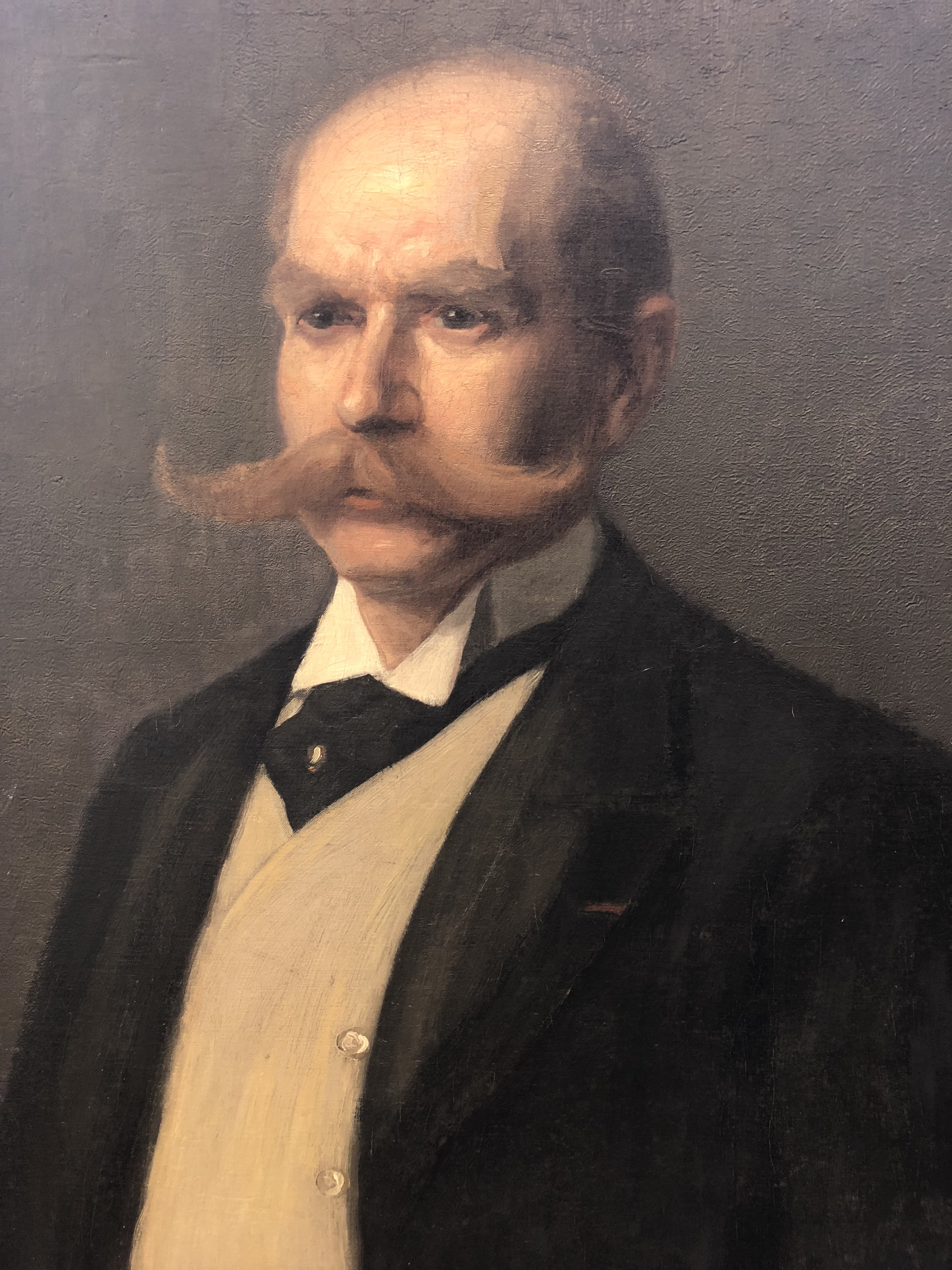 Portrait of Maximilian Berlitz, unsigned, date unknown